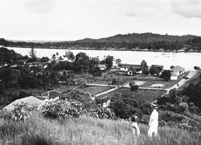 View over Samarinda and the Mahakam river